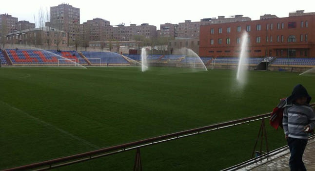 Banants training stadium – football school after Eduard Grigoryan